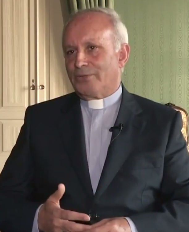 D. António Francisco dos Santos, bishop of Oporto.